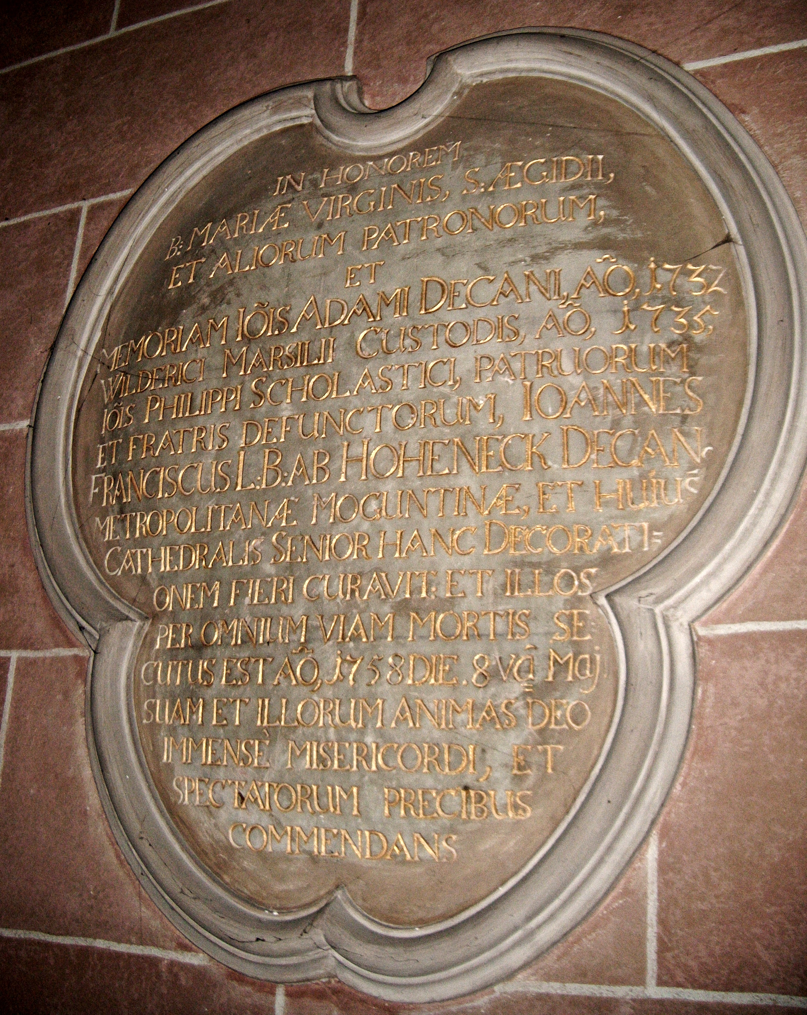 Epitaphinschrift des Mainzer Domdekans und Wormser Domherrn Johann Franz Jakob Anton von Hoheneck (1686-1758) Wormser Dom nördliches Querhaus